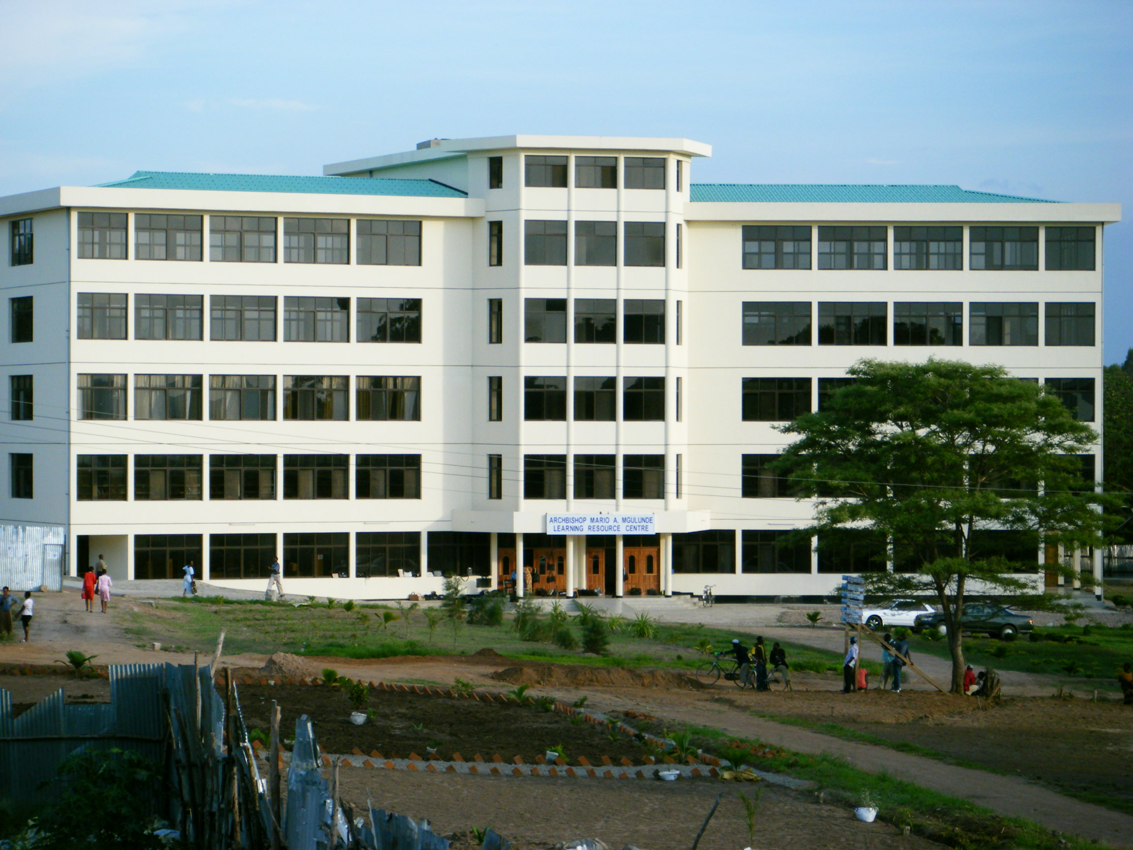 The library of Saint Augustine University of Tanzania.